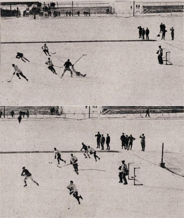 1924 Winter Olympics ice hockey final match, between Canada (in white) and the United States.